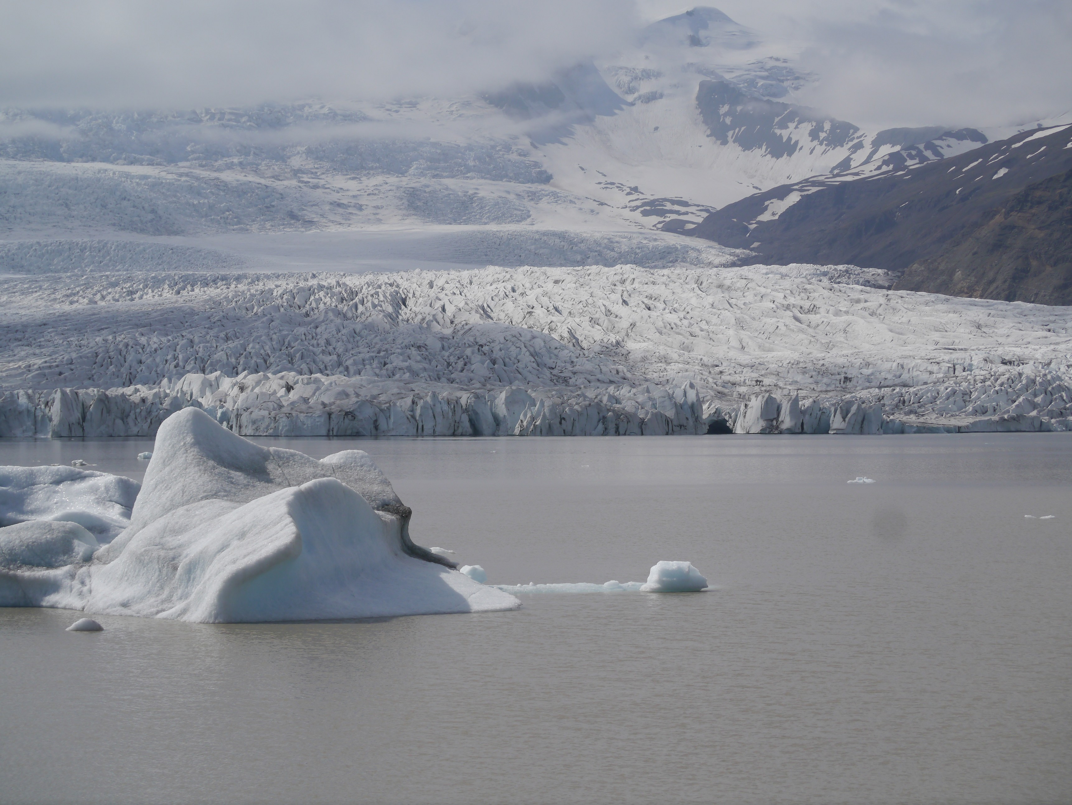 the Breidamerjökull Glacier Tongue, Southern Iceland